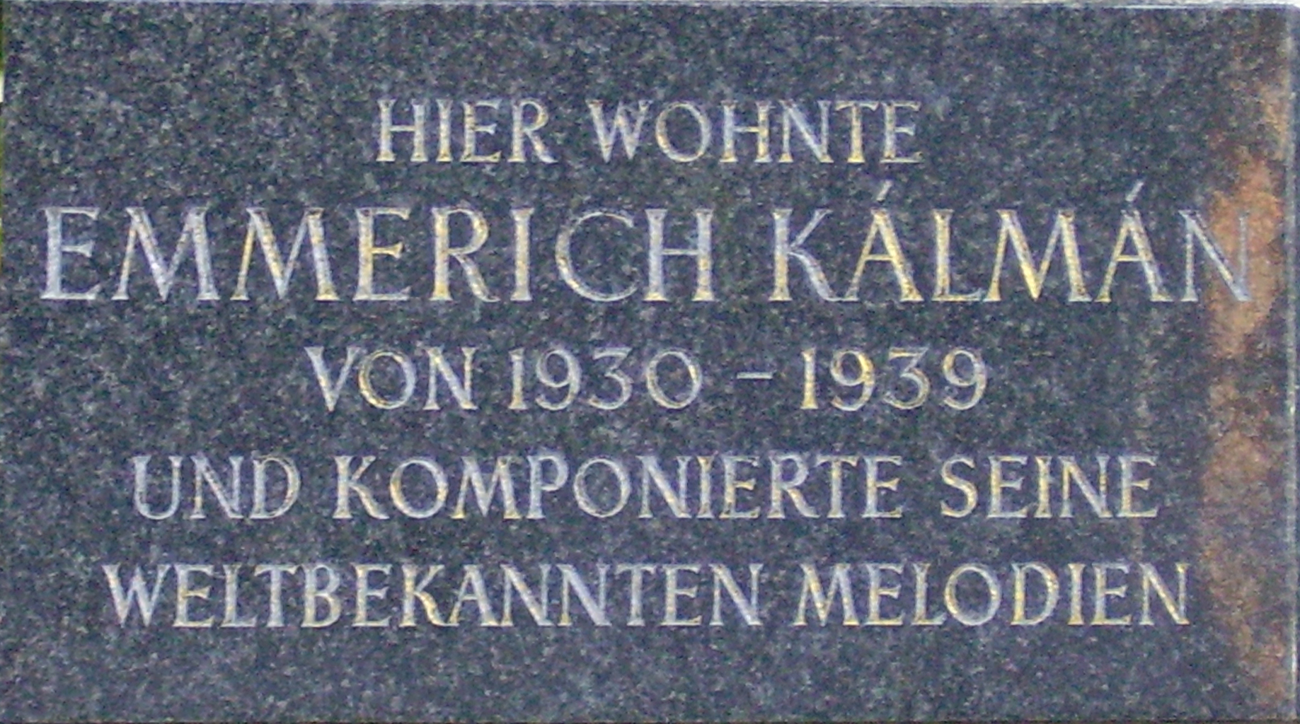 Emmerich Kálmán memorial plaque at his residence in Vienna, Hasenauerstrasse 29